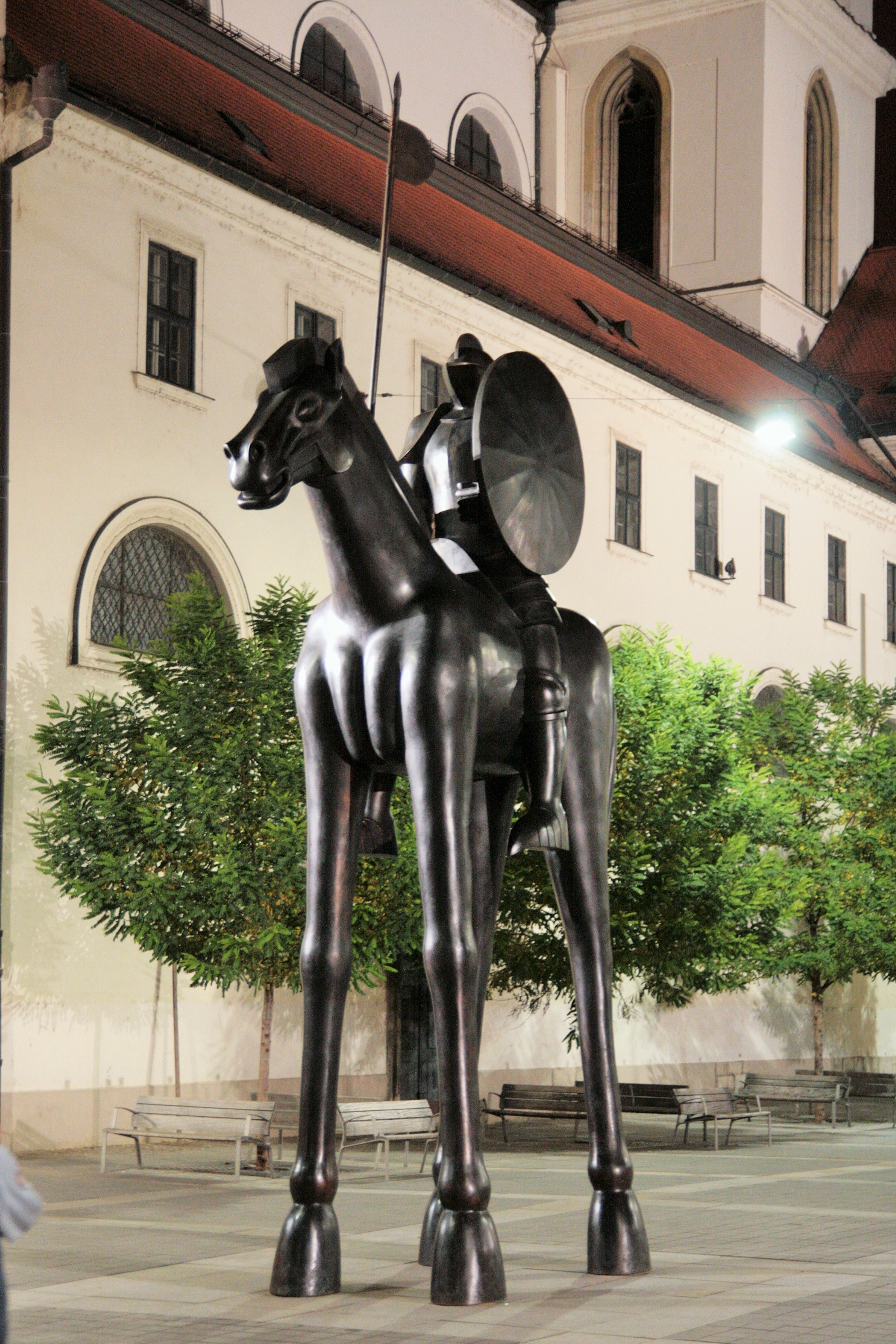 Monumental statue of Jobst of Moravia at Moravian square in Brno, Czech Republic. Author: Jaroslav Róna.